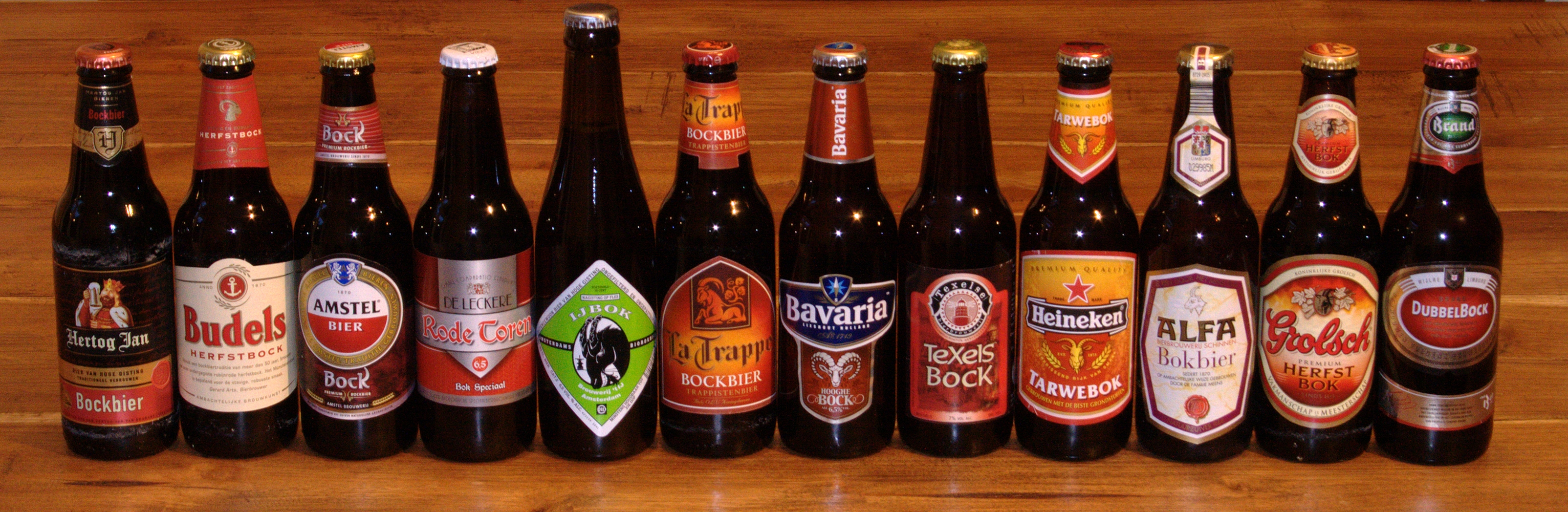 Collection of automn bock beers from the Netherlands